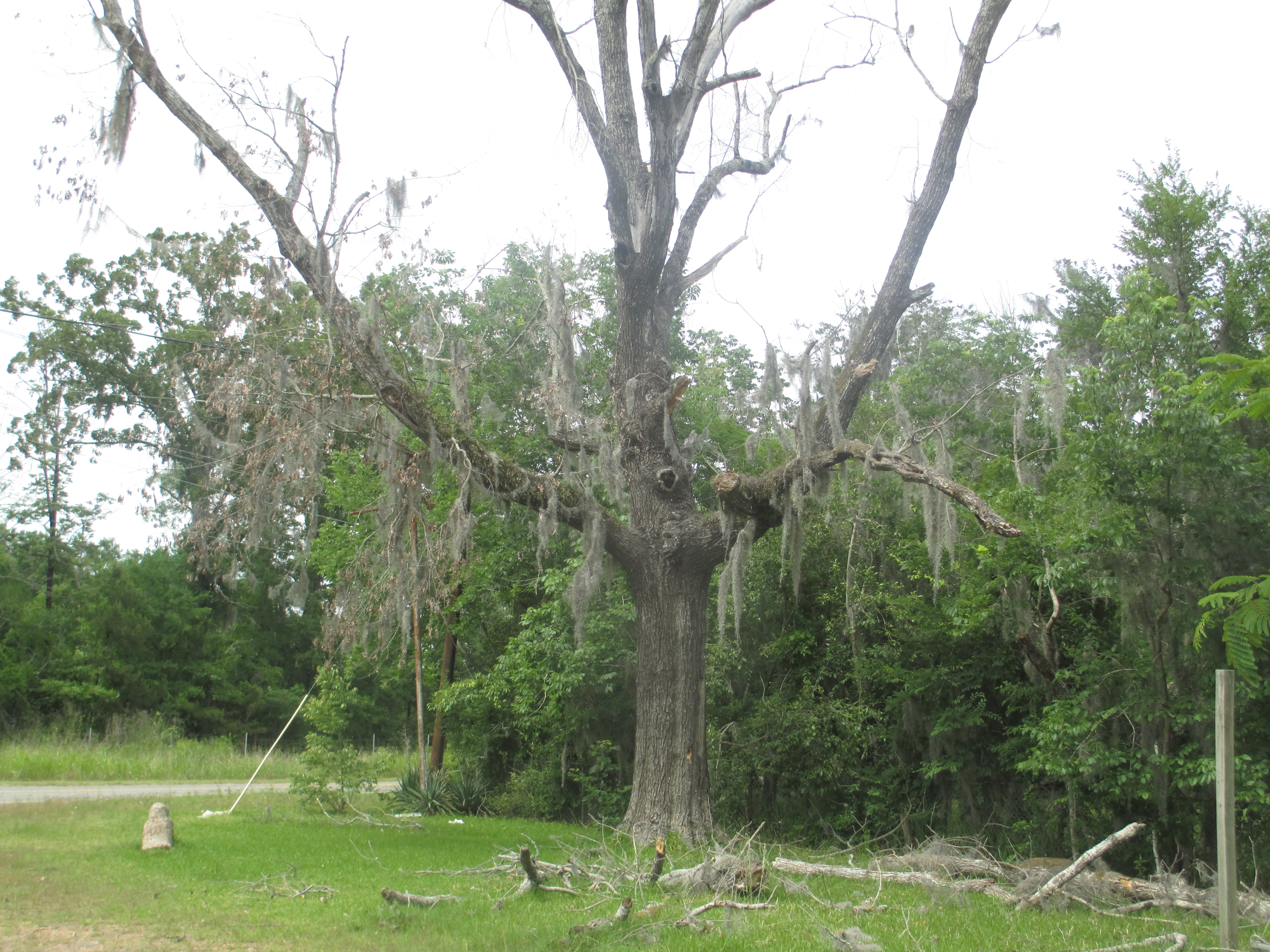 Moss on tree in the Cane River National Heritage Area, Natchitoches Parish, Louisiana. I took photo of moss on tree in Creston, LA, at Black Lake, with Canon camera.